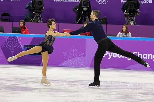 M. Duhamel and E. Radford at the 2018 Winter Olympics